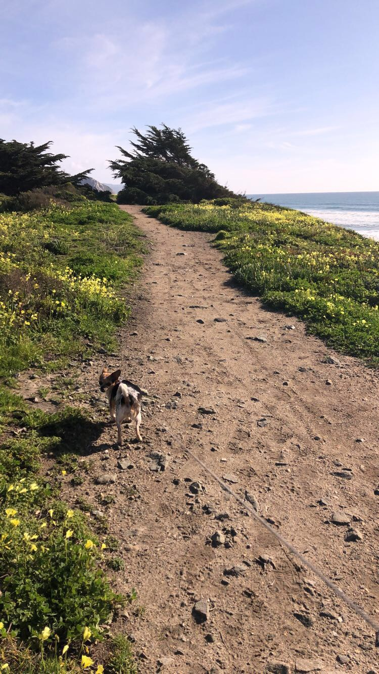 Walking my dog along the beach and thought the flowers looked pretty (posting this for a class)